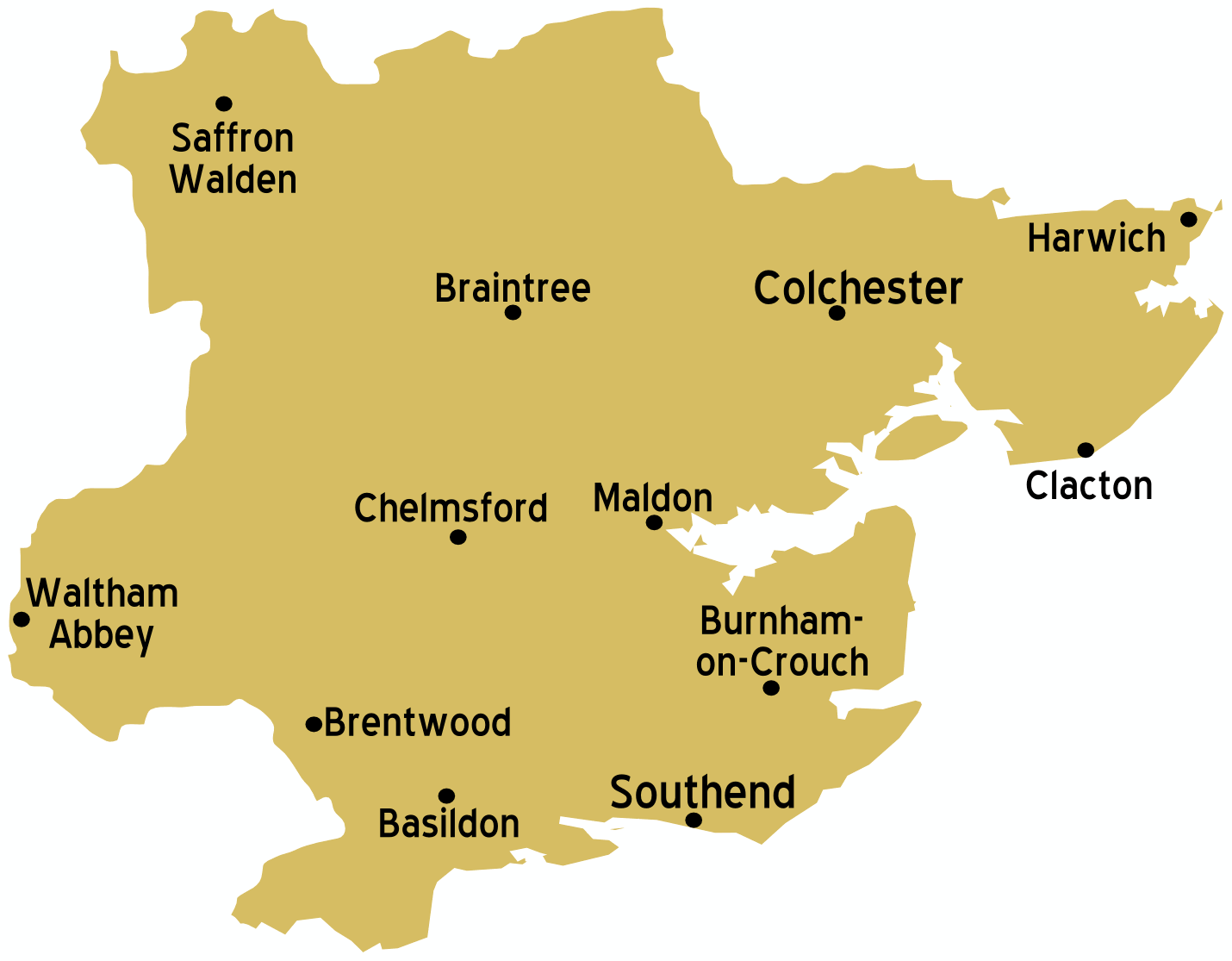 Map of Essex Source: :Image:UK map.svg map: England Map of: England